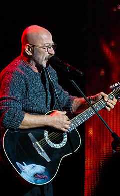 Александр Розенбаум на торжественном вечере, посвященном 65-й годовщине со дня образования подразделений специального назначения Вооруженных Сил Российской Федерации.Федерации.